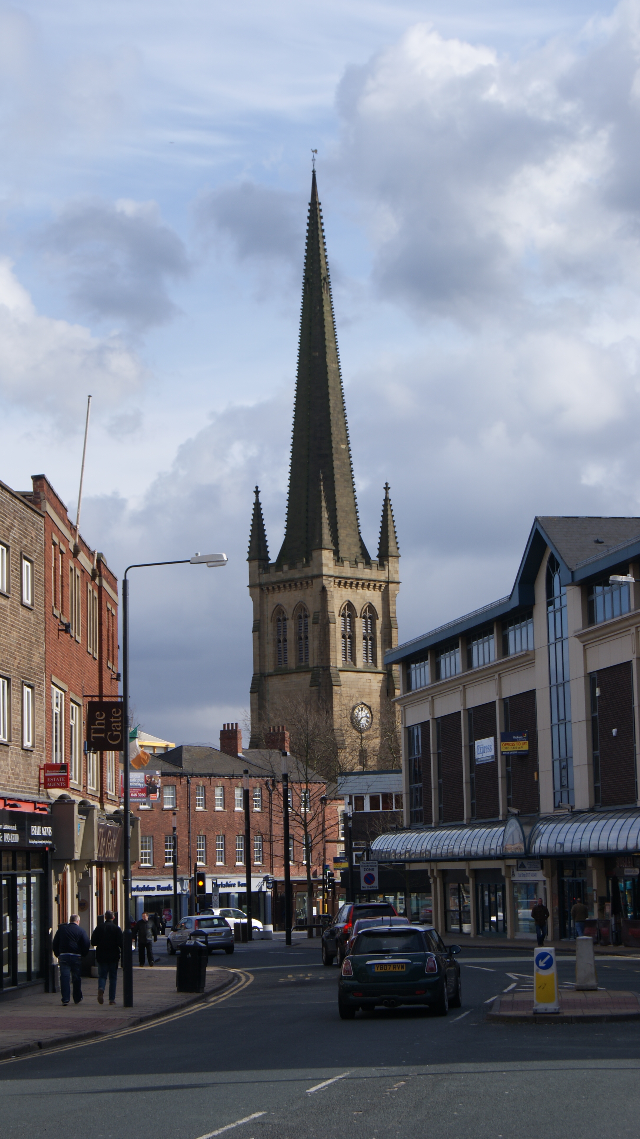 Wakefield Cathedral and Bull Ring junction seen from Northgate, Wakefield, West Yorkshire. Taken on the afternoon of Sunday the 10th of February 2013.